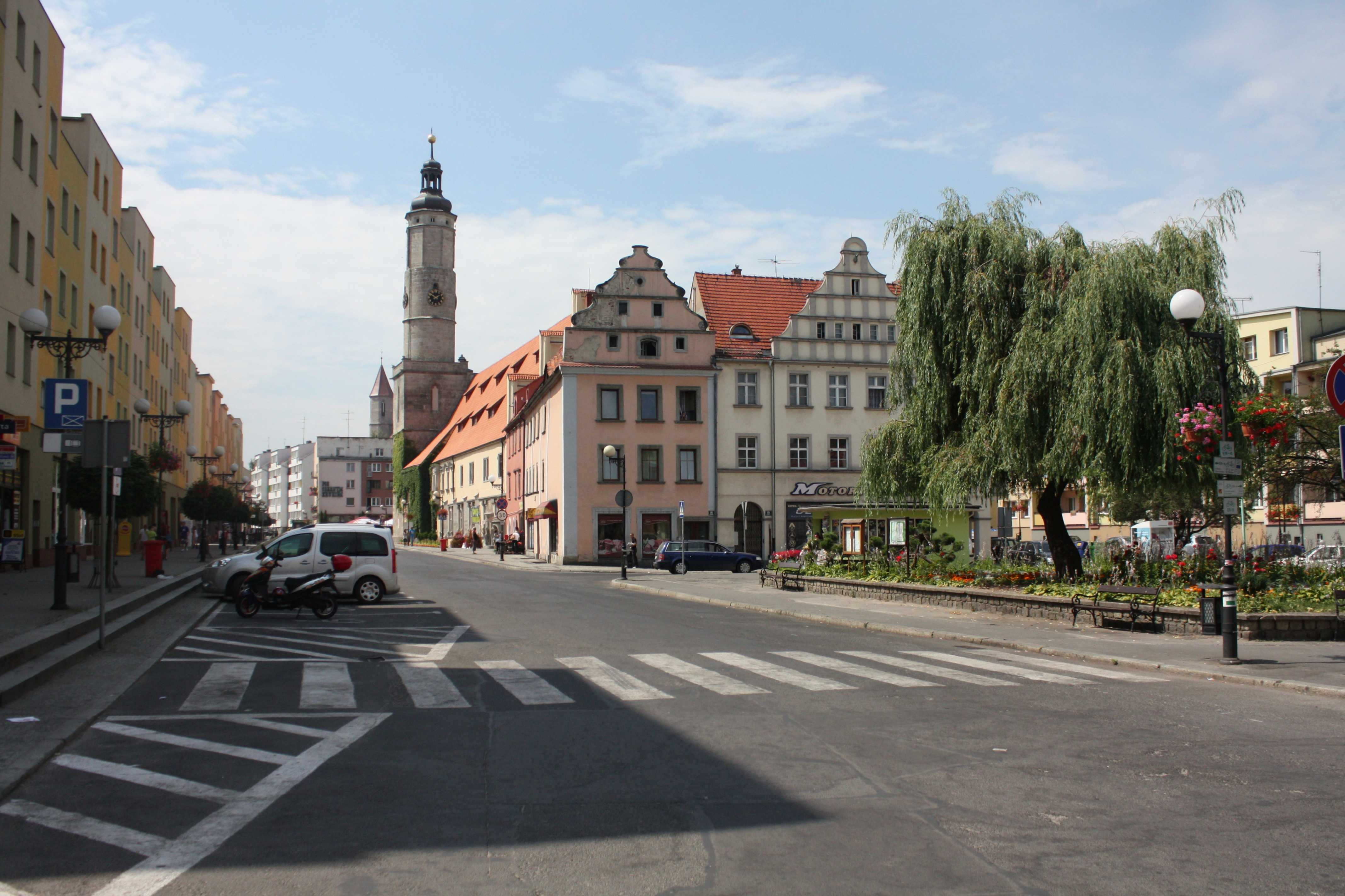 This photo of Lower Silesian Voivodeship was taken during Wikiexpedition 2013 set up by Wikimedia Polska Association. You can see all photographs in category Wikiekspedycja 2013. English | Polski | +/−